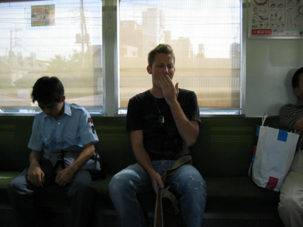 Photo taken by Max Walker in Japan.